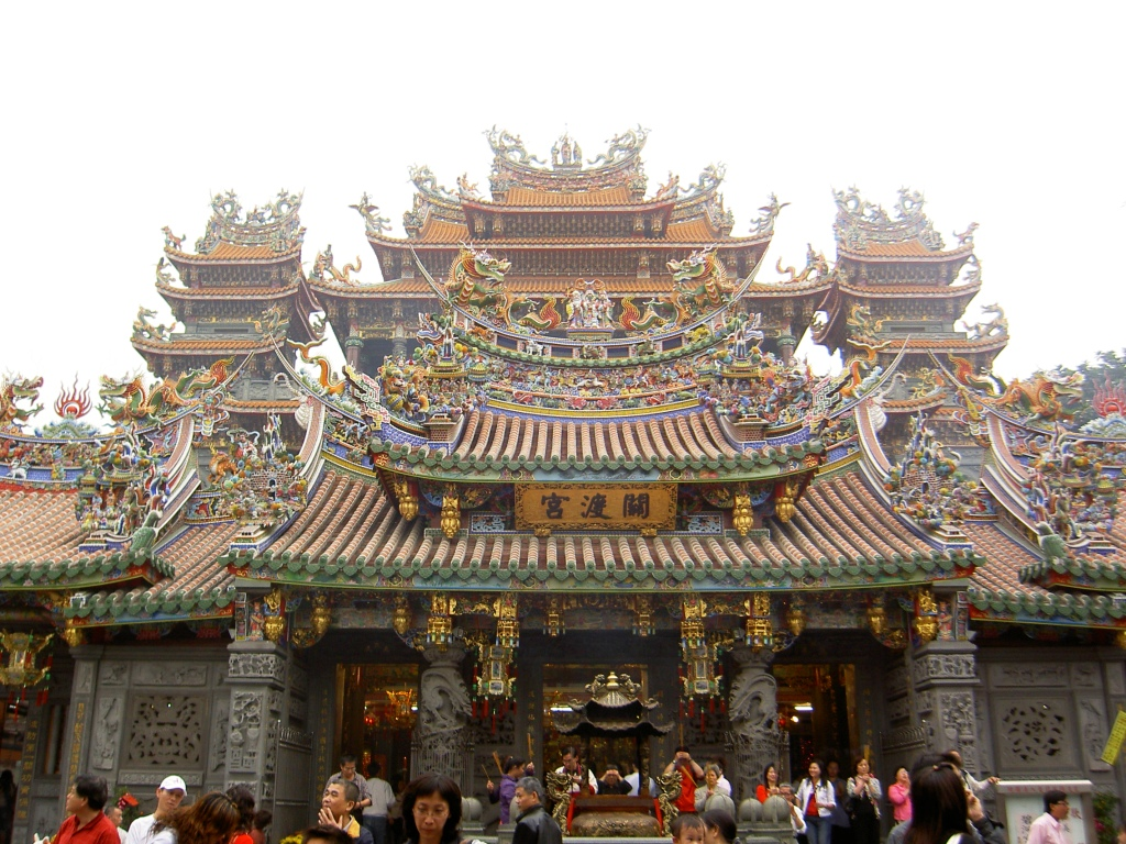 Guandu Temple, Beitou District, Taipei City, Taiwan